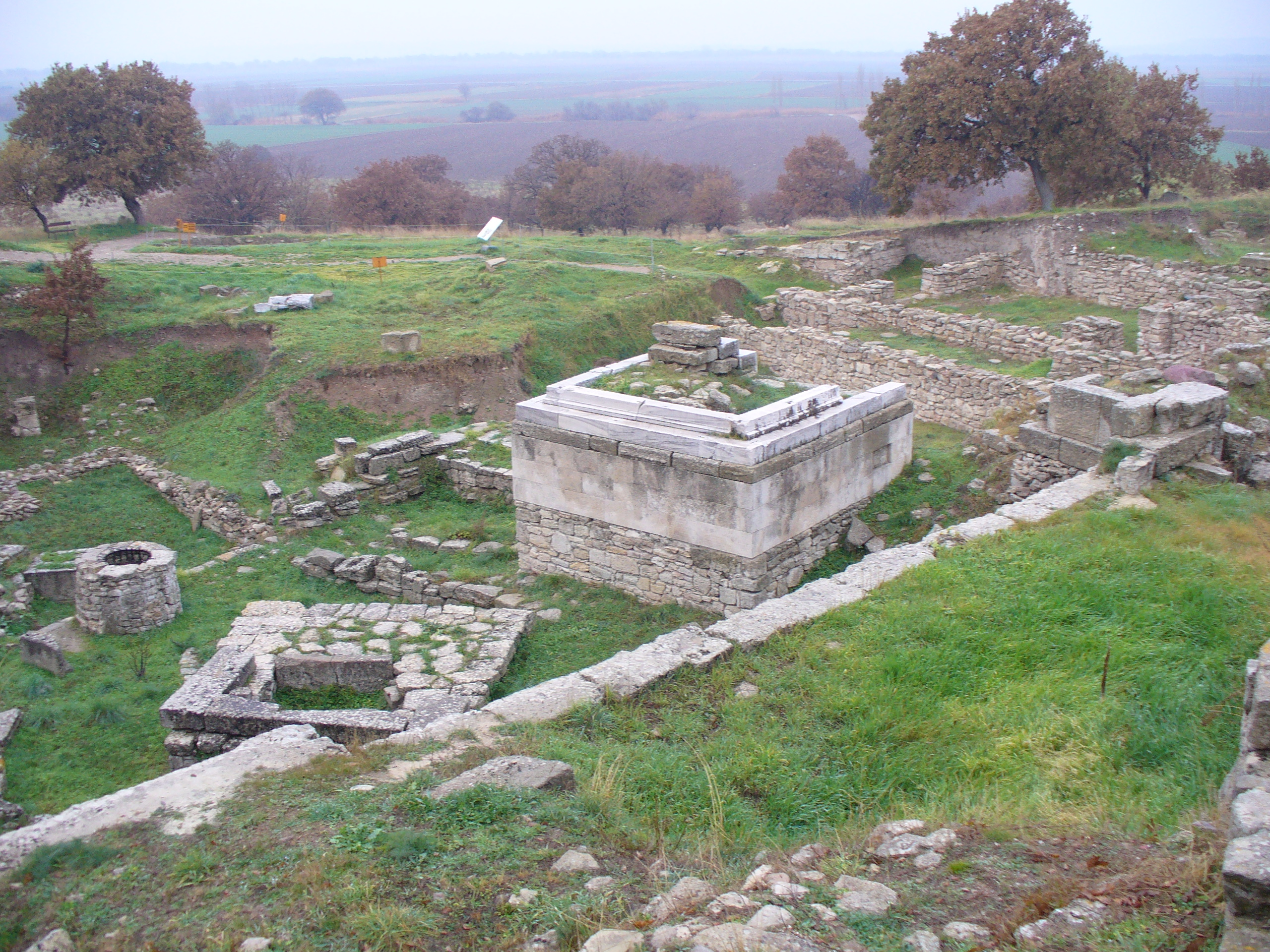 Some structures from Roman Troy (Troy IX), if I'm not mistaken. The mist-strewn valley below was underwater at the time of Troy II, but was dry land like today by the time of Priam.Troy walls and landscape 2